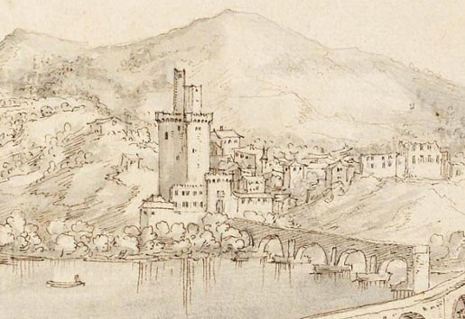 Detail showing the Tour Philippe-le-Bel at Villeneuve-lès-Avignon, France. Taken from a picture of the Pont Saint-Bénezet looking towards Villeneuve.